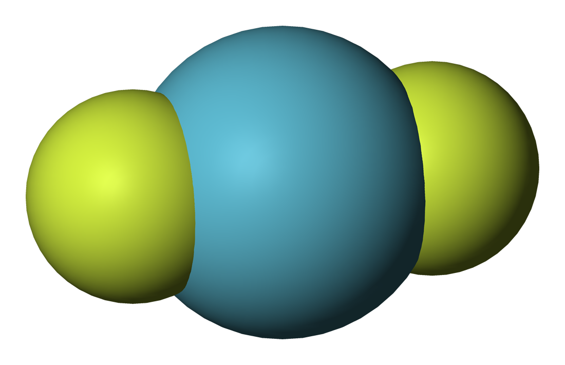 Space-filling model of the krypton difluoride molecule (KrF2). Colour code: Krypton, C: light blue Fluorine, H: lime-green Model manipulated and image generated in BIOVIA Discovery Studio Visualizer.